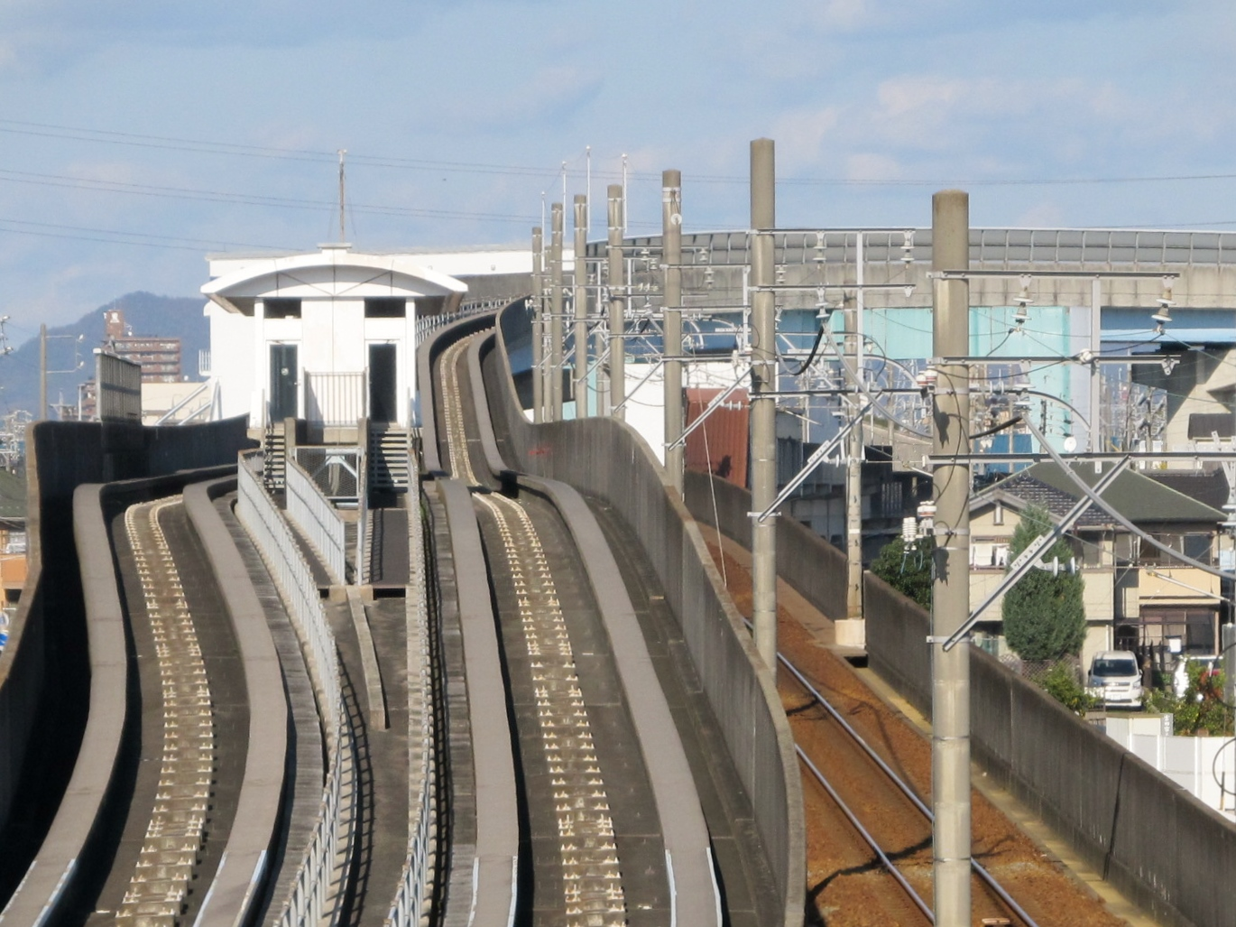 Tokadai New Transit Peach Liner Komakihara Station Platform